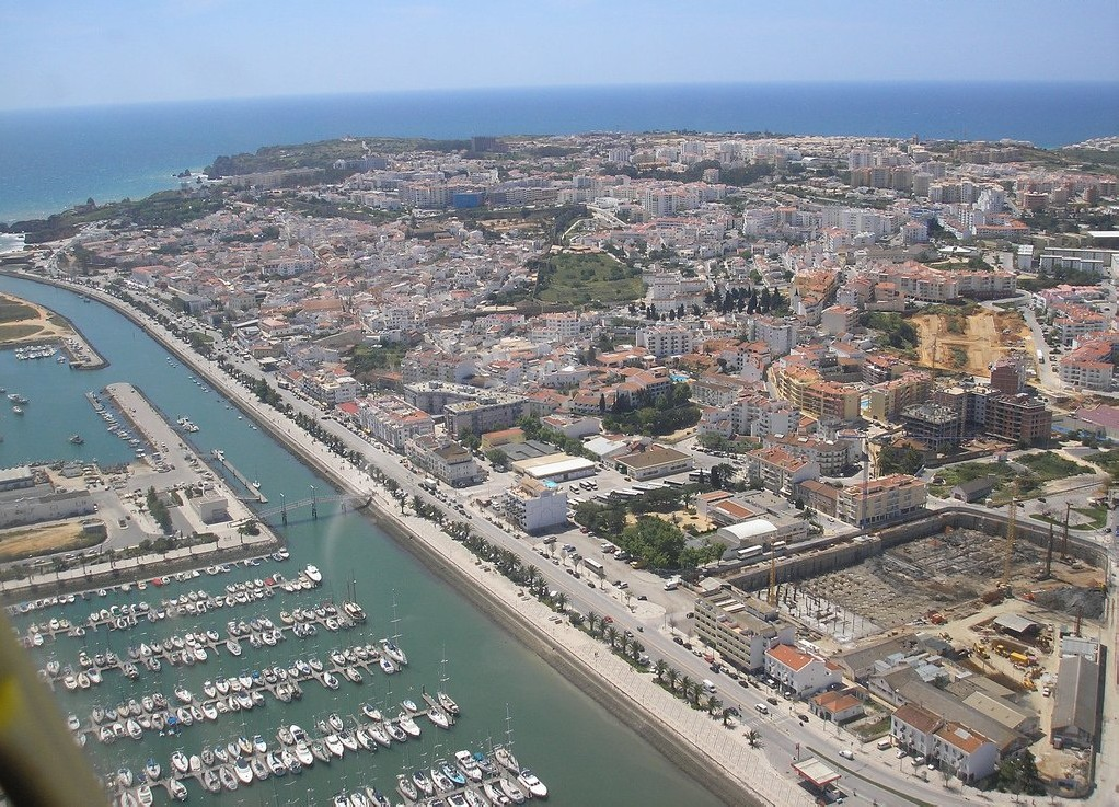 Lagos from the sky